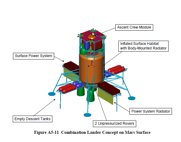 Mars DRM 3.0, Figure A5-11, page 47, Combination Lander Concept diagram.